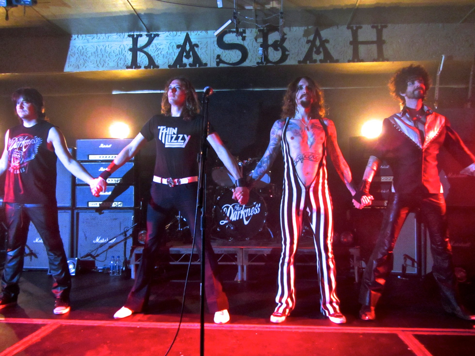 The Darkness live in Coventry June 4th 2013.